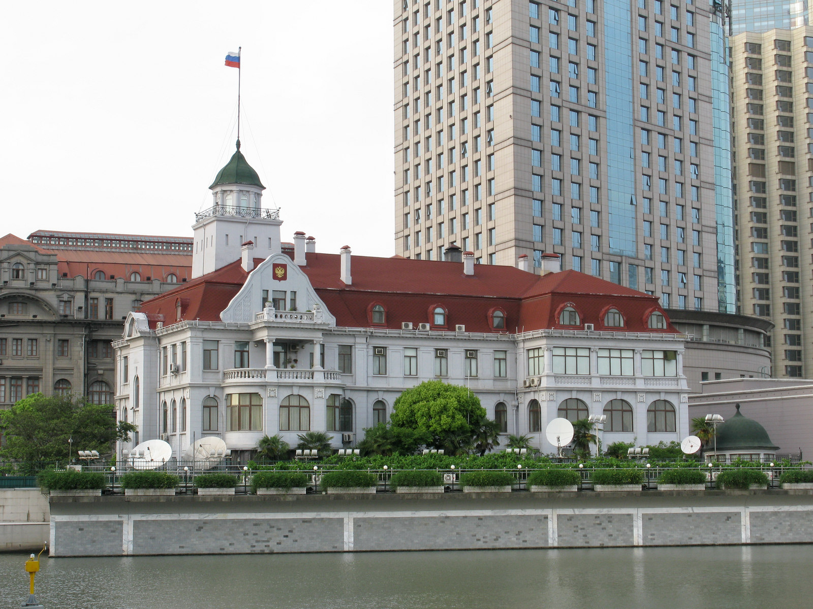 Russian Consulate General in Shanghai